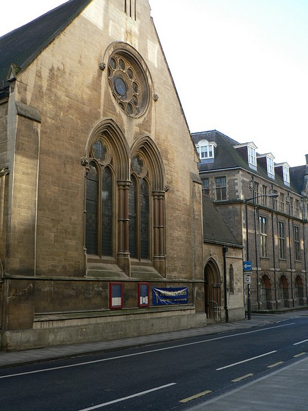 St Columba's Church, Downing Street, Cambridge The church was founded in 1879 as a Presbyterian Church. It has been a United Reformed Church since 1972, when the Presbyterian and Congregational churches joined (with others) to form the United Reformed Church.